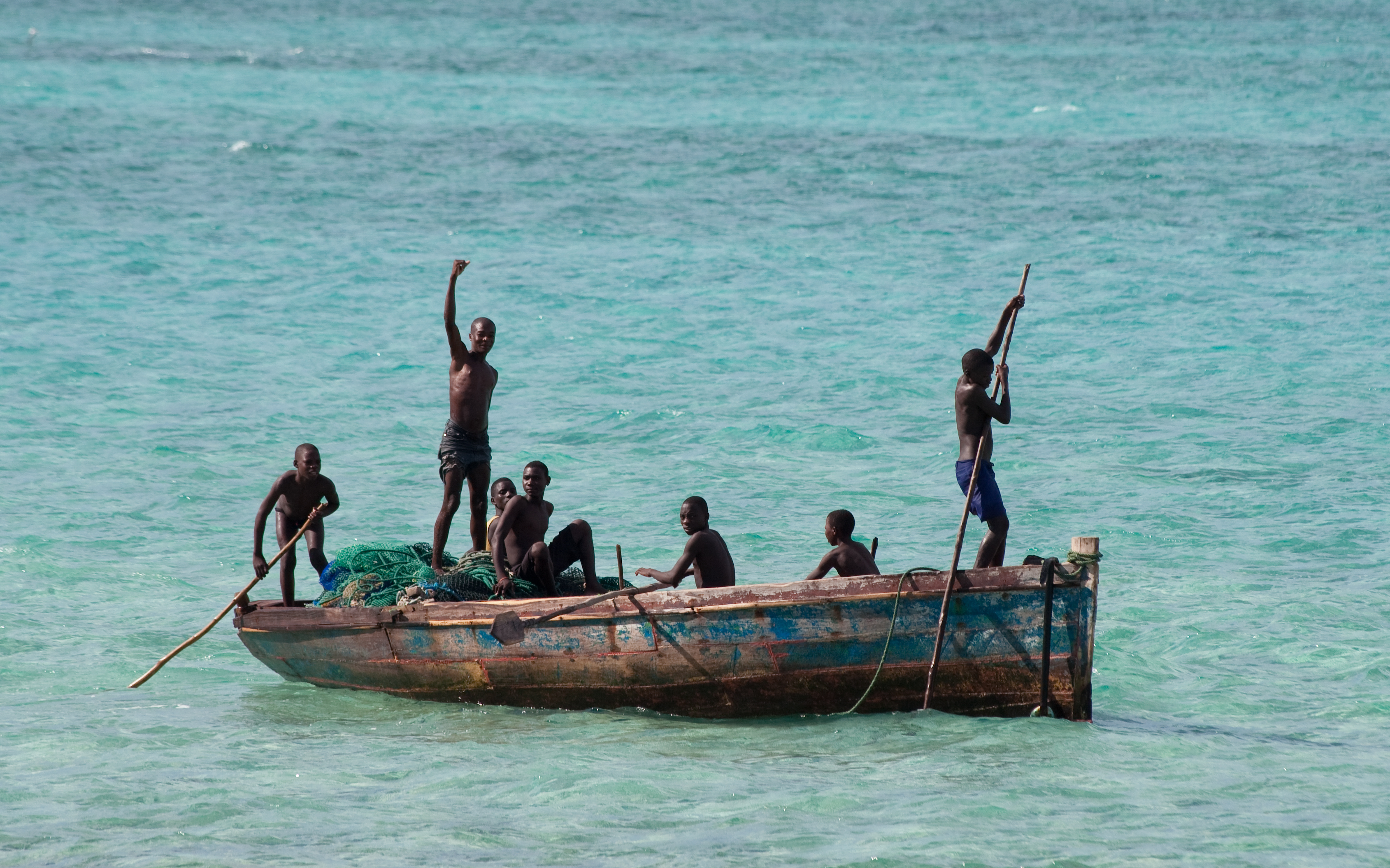 Fishermen pushing a boat with poles. Memba Bay, Nampula Province, Mozambique.